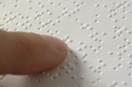 Close up of Braille page